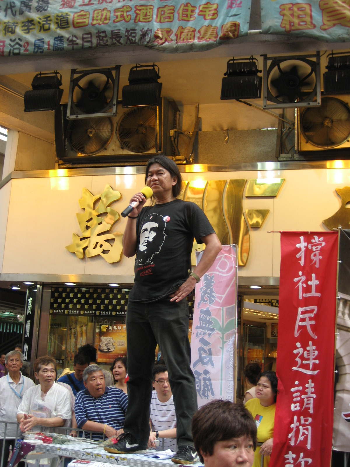 Longhair, The Hon. Leung Kwok Hung, in the 1 July protest 2008.